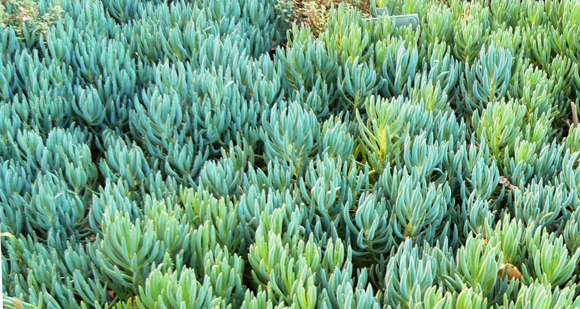 Senecio serpens. Succulent groundcover indigenous to Southern Africa.